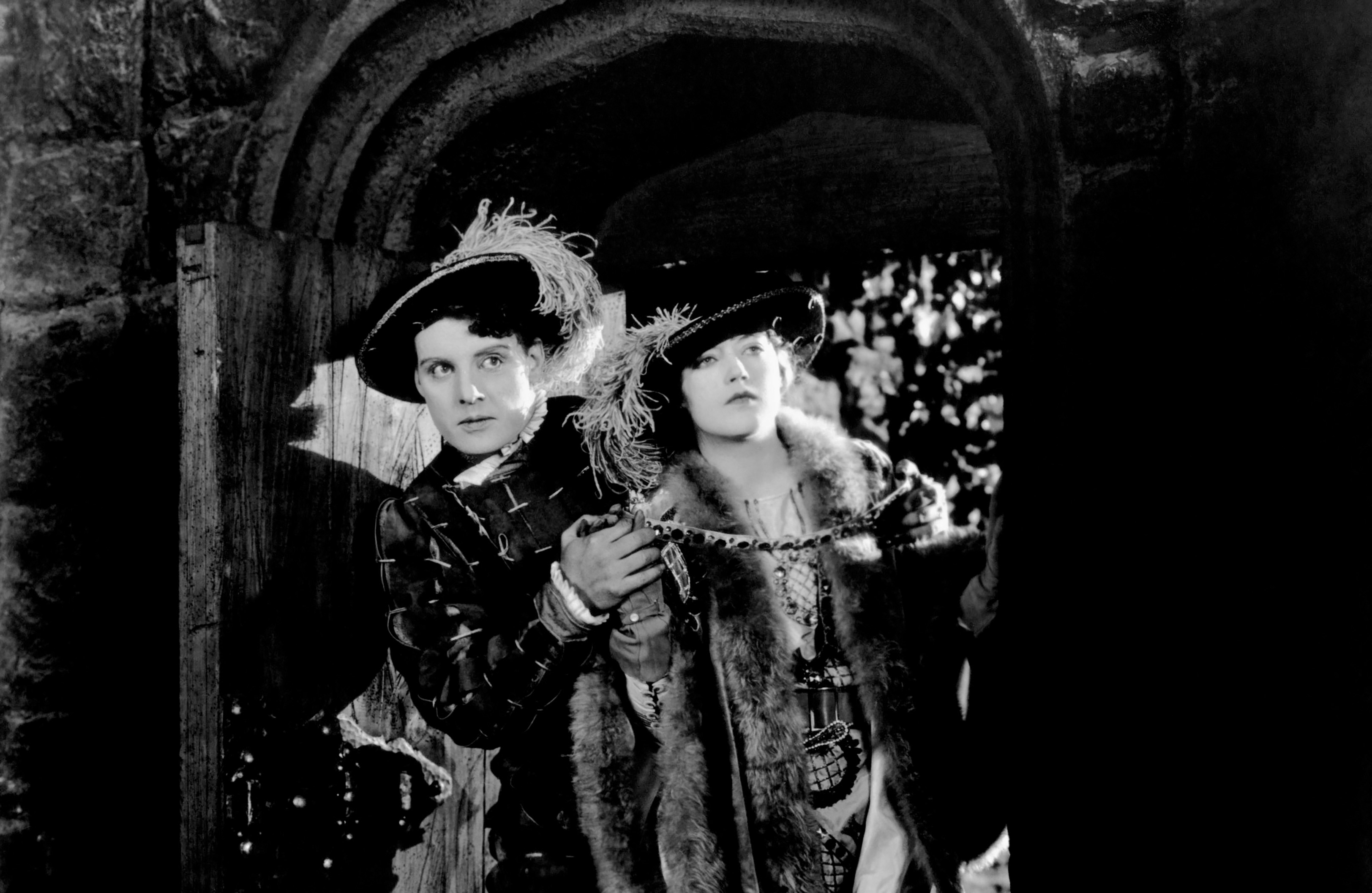 WHEN KNIGHTHOOD WAS IN FLOWER, from left, Forrest Stanley, Marion Davies, 1922